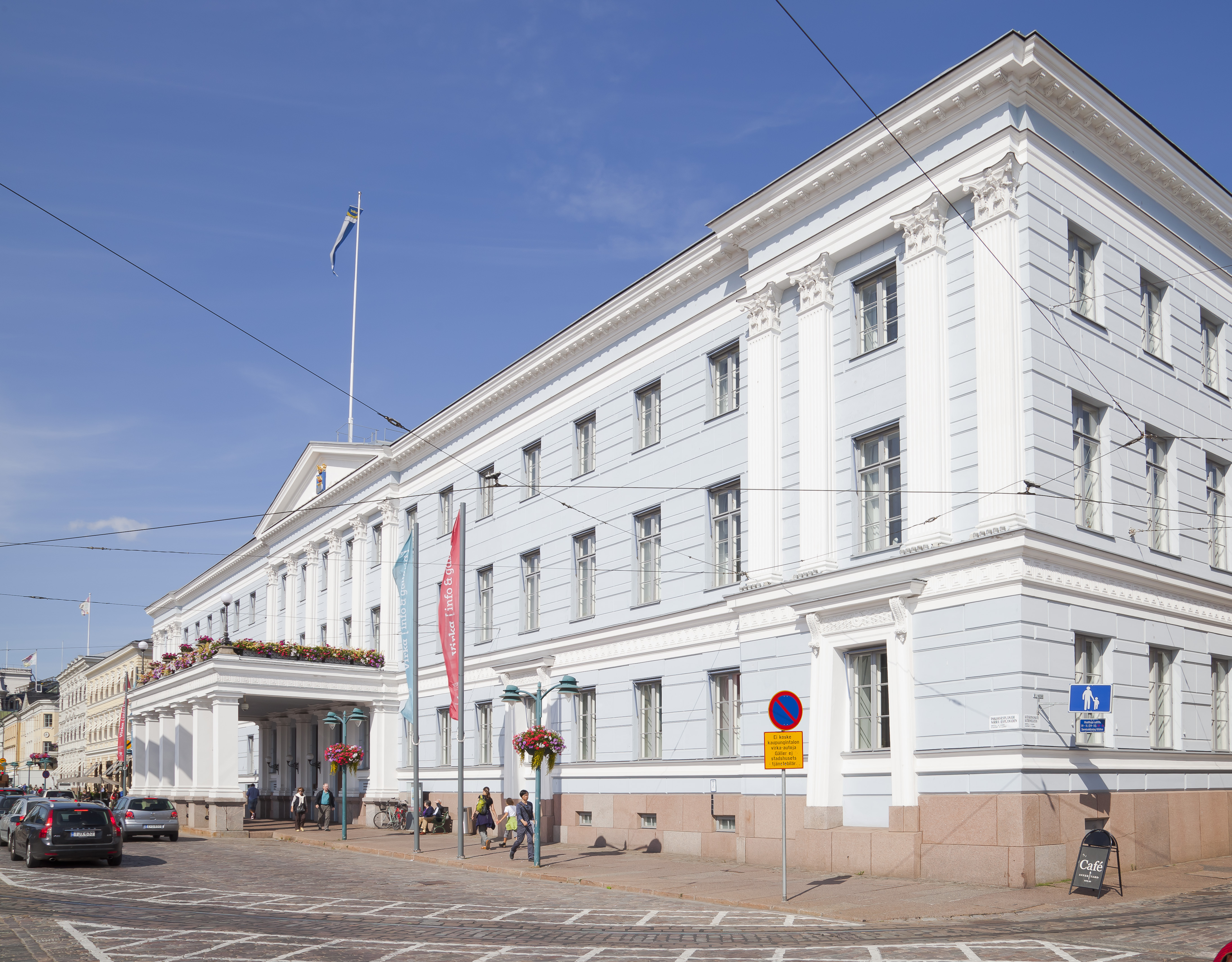 City Hall, Helsinki, Finnland